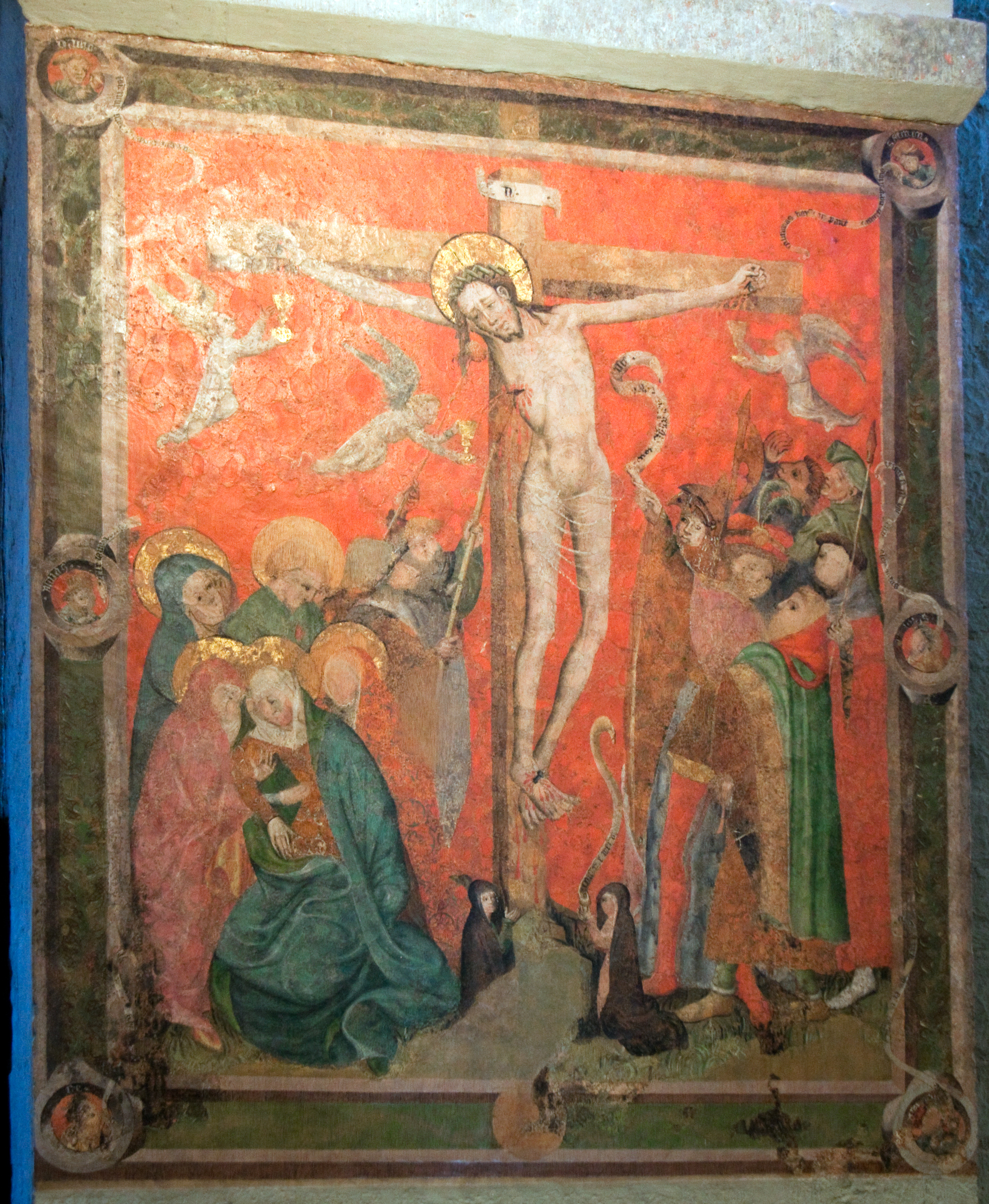 Drawing on wall at St. Petri in Soest